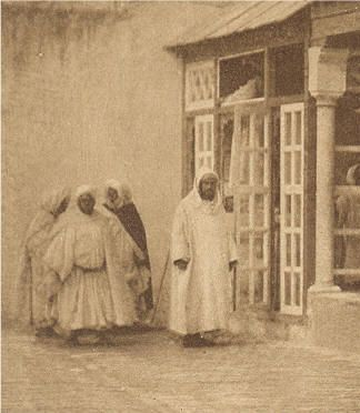 Moulay Hassan I of Morocco in Meknes in 1887